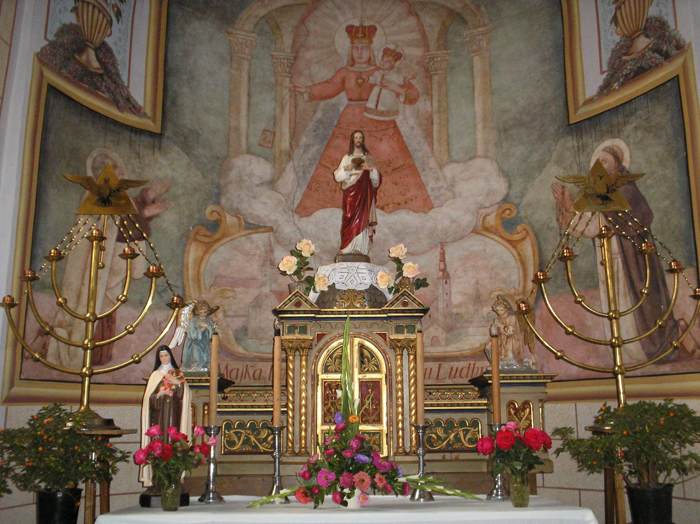 Church of Holly Trinity, City of Ludbreg, Croatia